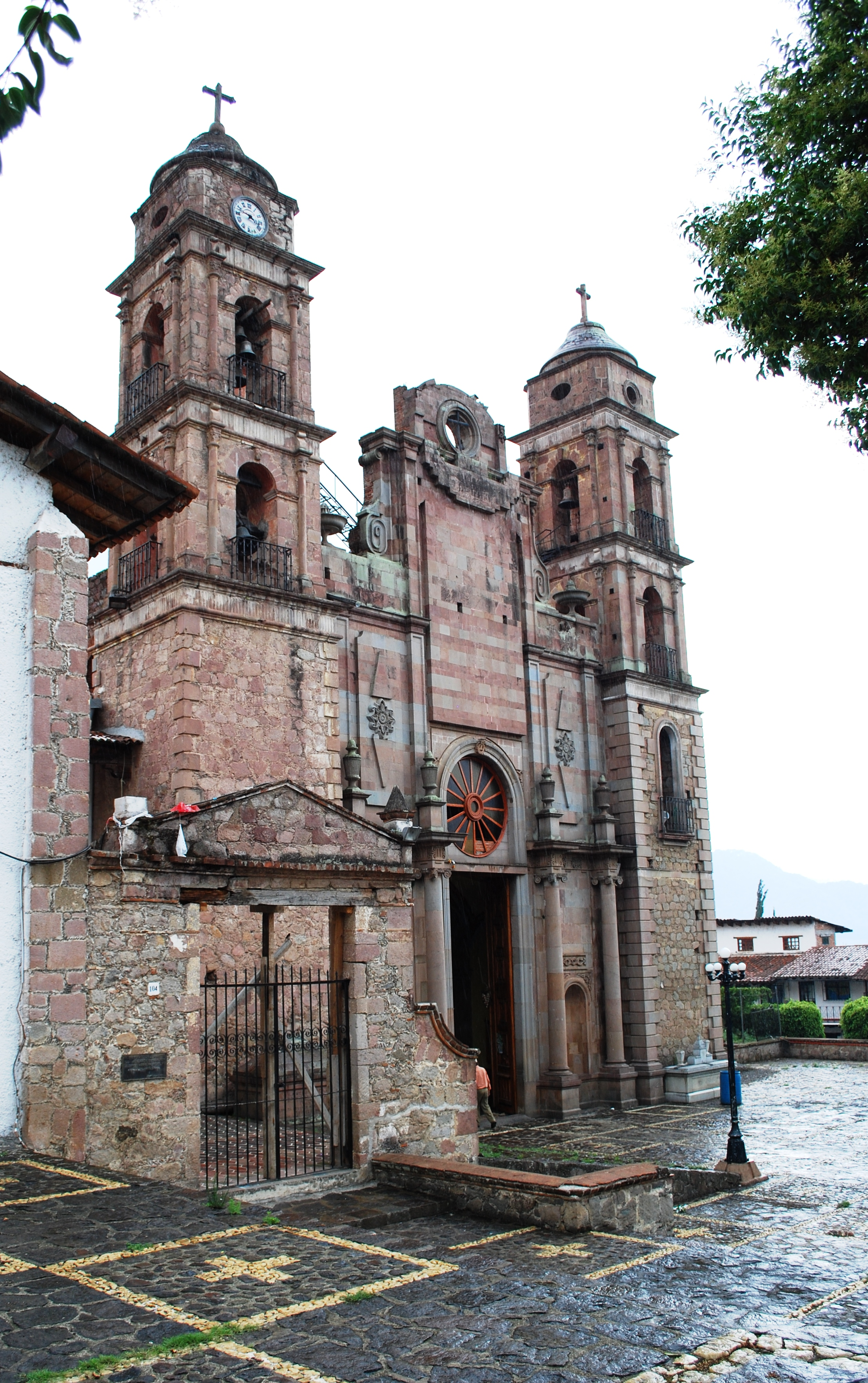 Temple of Santa Maria Ahuacatlan in Valley de Bravo, Mexico